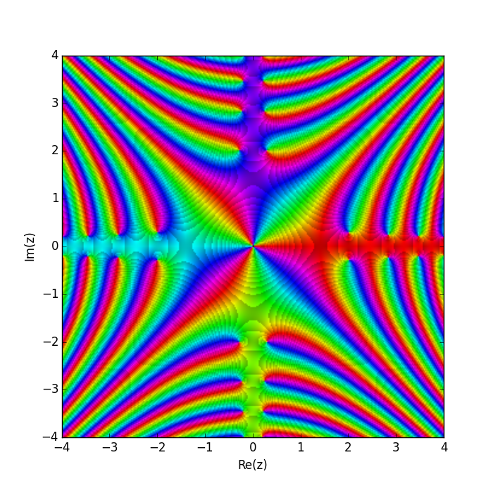 Complex Fresnel integral S(z)